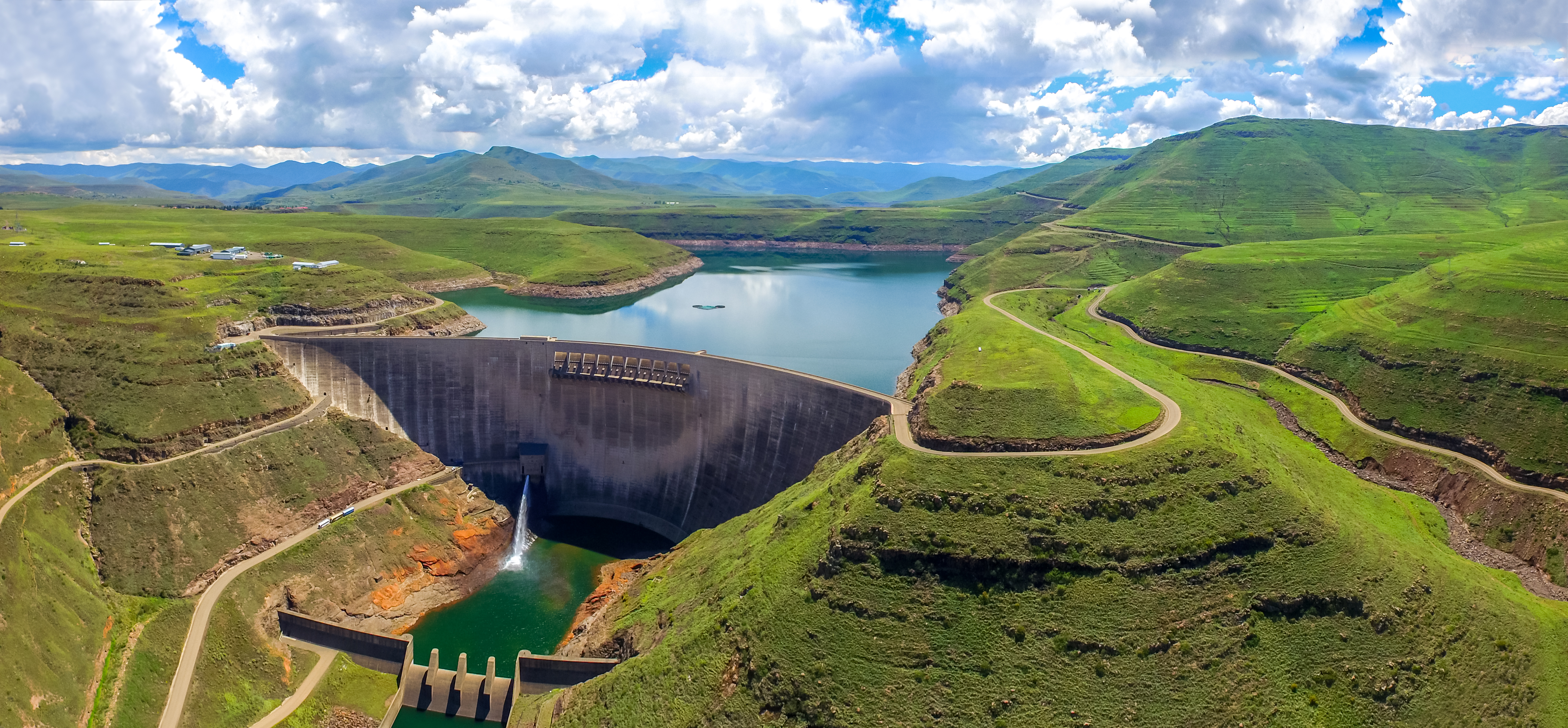 Katse Dam, a 185m high concrete arch dam on the Malibamat'so River in Lesotho